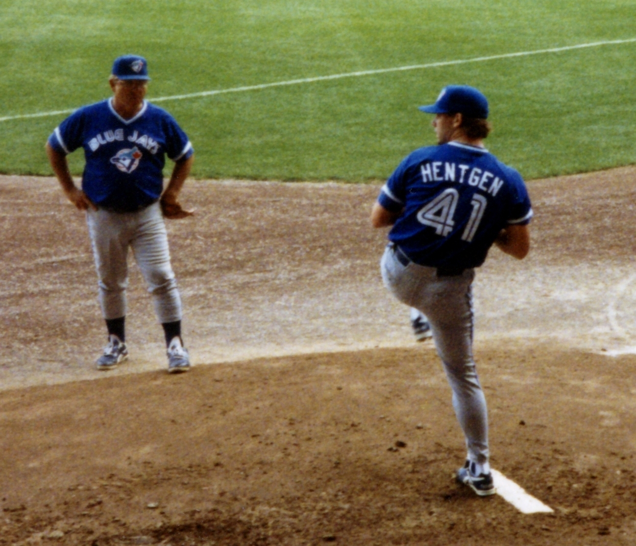 Toronto Blue Jays pitching coach Galen Cisco and pitcher Pat Hentgen.